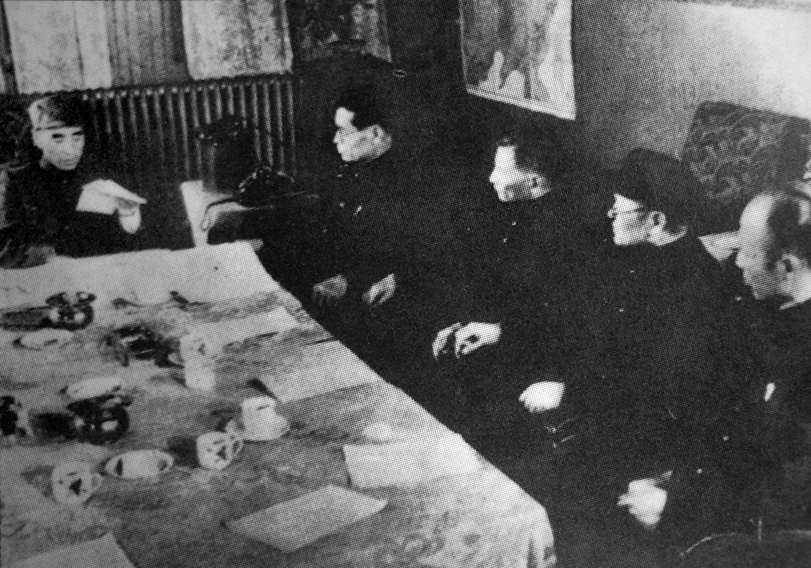 Dongbei Ju leaders having a military conference in Harbin.